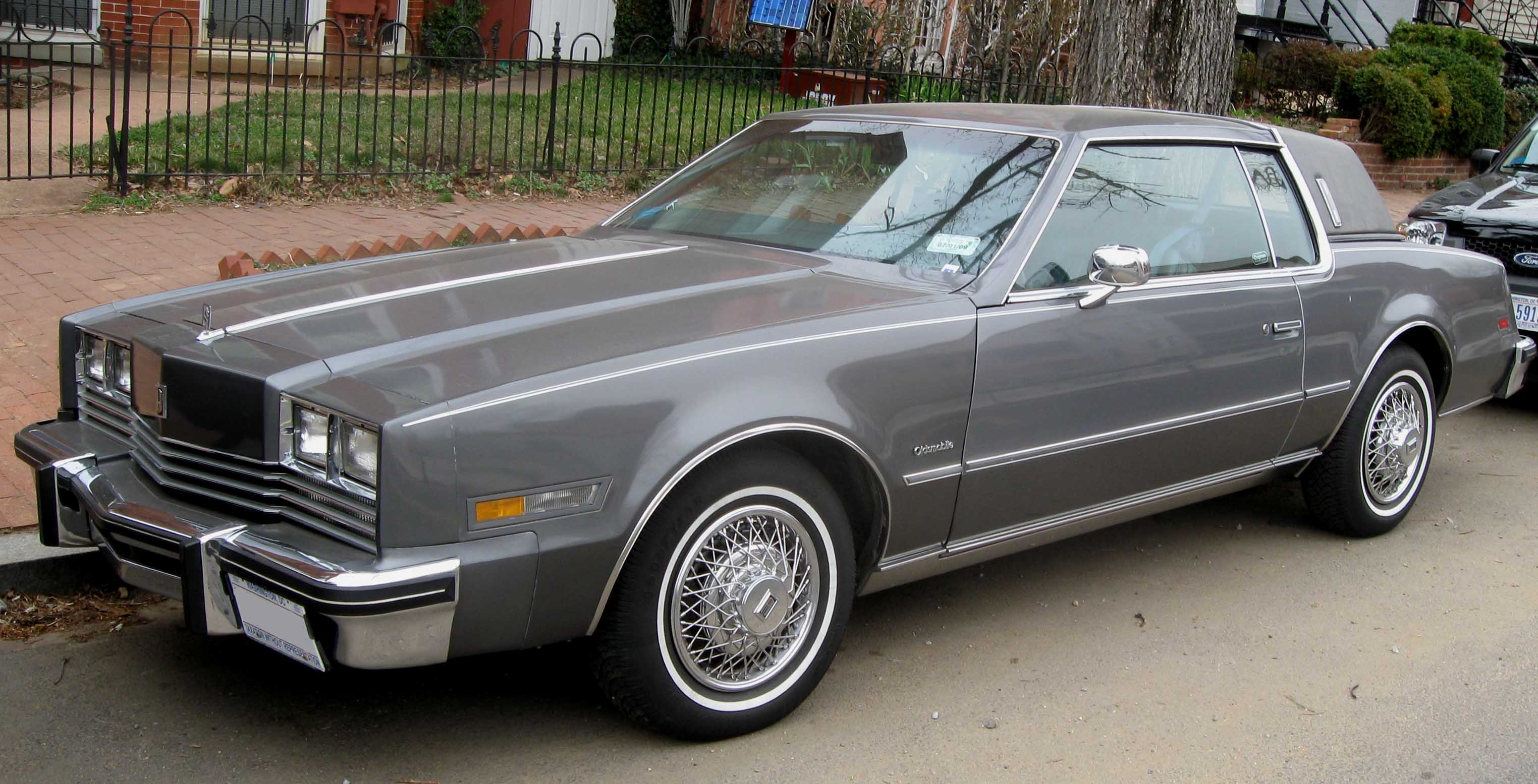 1979-1985 Oldsmobile Toronado photographed in Washington, D.C., USA.